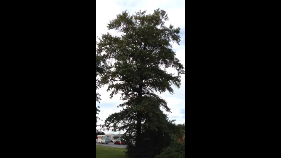 Picture of the Oak Tree near the Three Mile Oak Tree Historical Marker in Annapolis, Maryland.